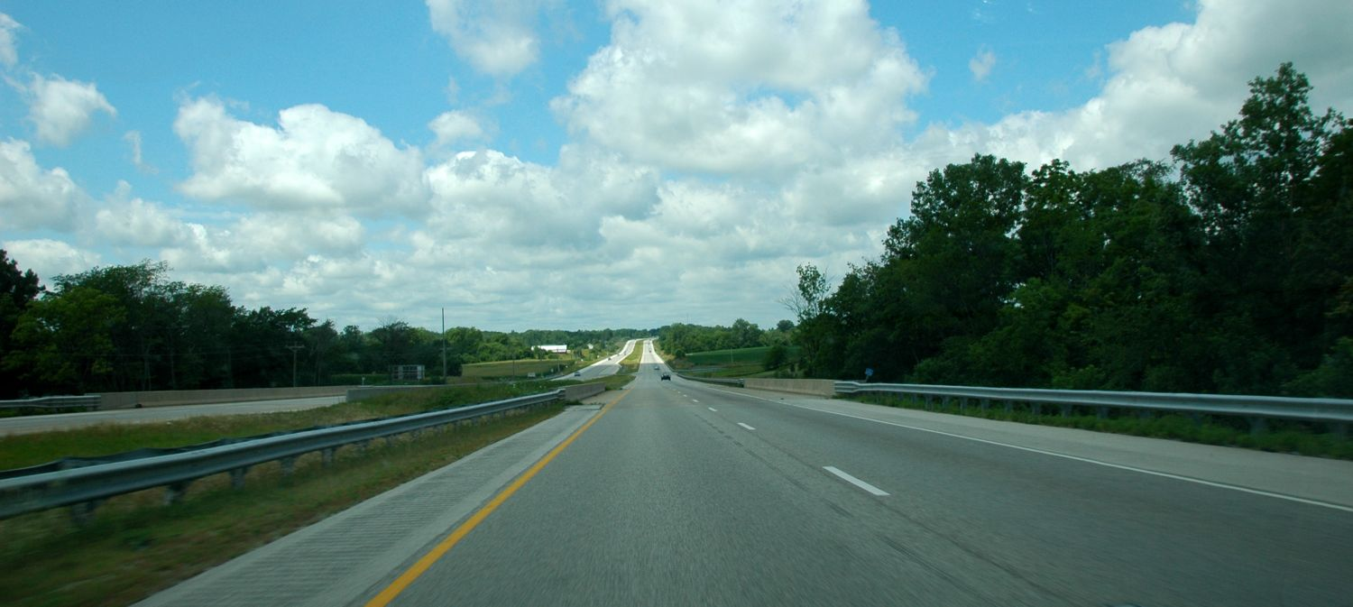 U.S. Route 30 west of Fort Wayne, Indiana.